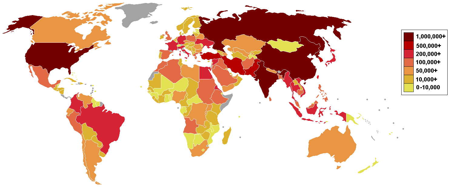 Countries in grey have no military either by constitutional amendment (Costa Rica), treaties or agreements with neighboring countries or regional asociations to provide defense forces (Andorra, and various Caribbean countries), or by lack of formal government to organize one (Somalia). I made it myself, it is an updated version of the current map on the list of countries by number of active troops page, proudly brought to wikipedia by its map-making creator and douchy contributor: Kermanshahi...